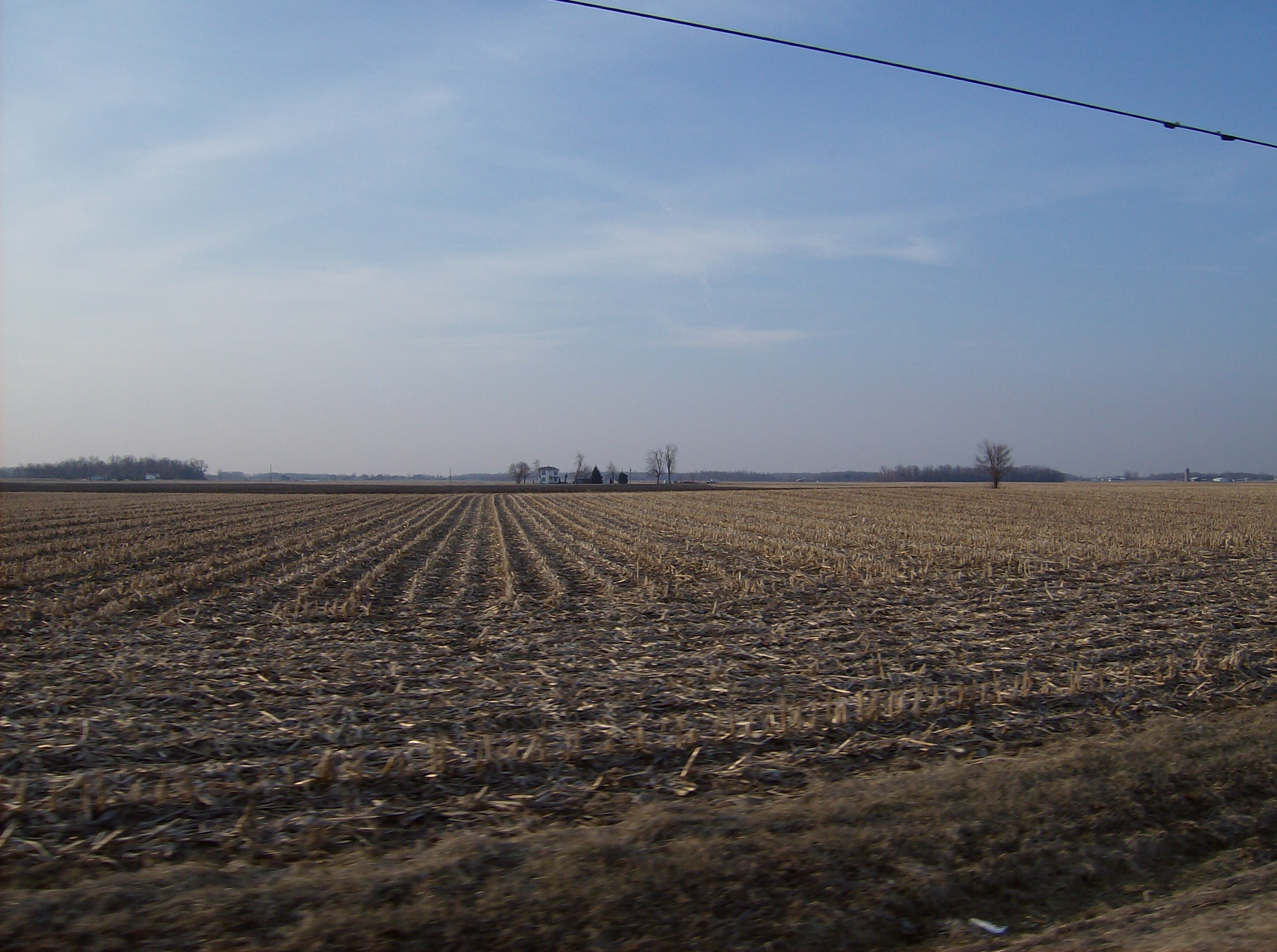 View of farmland in Goshen Township, Hardin County, Ohio, United States. Picture taken from Ohio State Route 67.